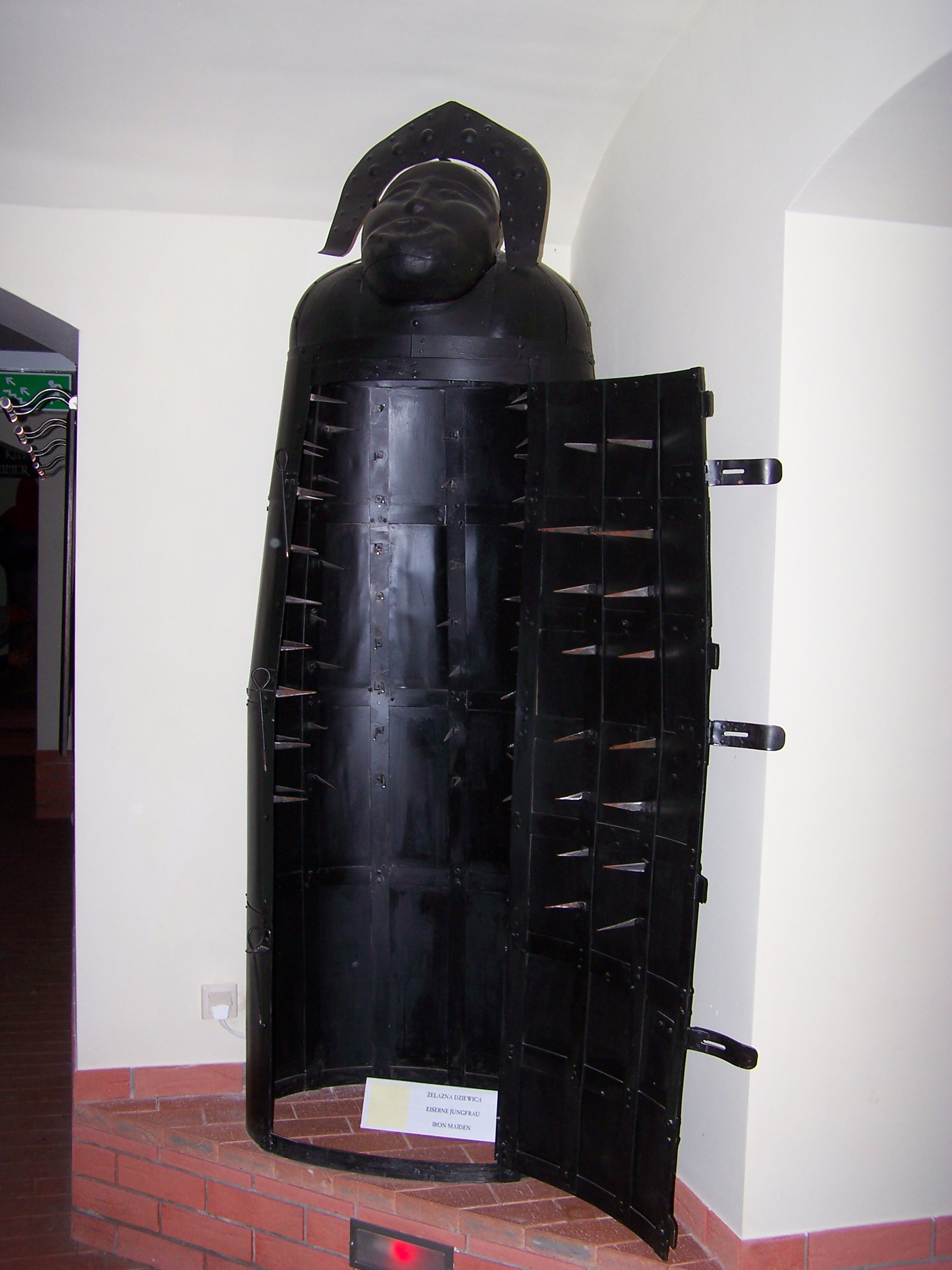 Iron Maiden. Torture museum in Lubuska Land Museum in Zielona Góra.